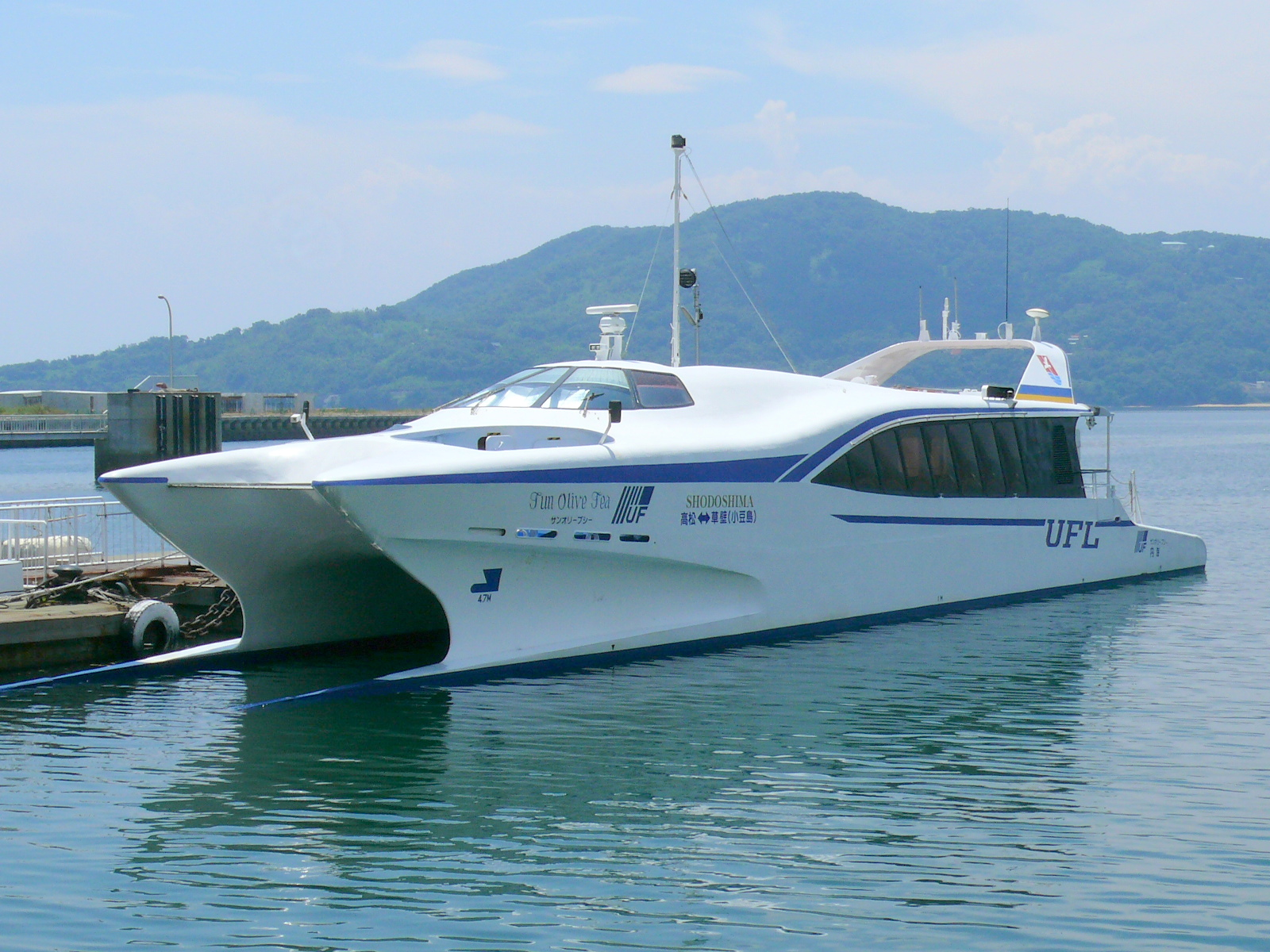 "Sun Olive Sea" at Kusakabe port(Kagawa Prefecture, Japan).